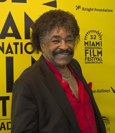 George McCrae at the Miami Film Festival presentation of The Record Man